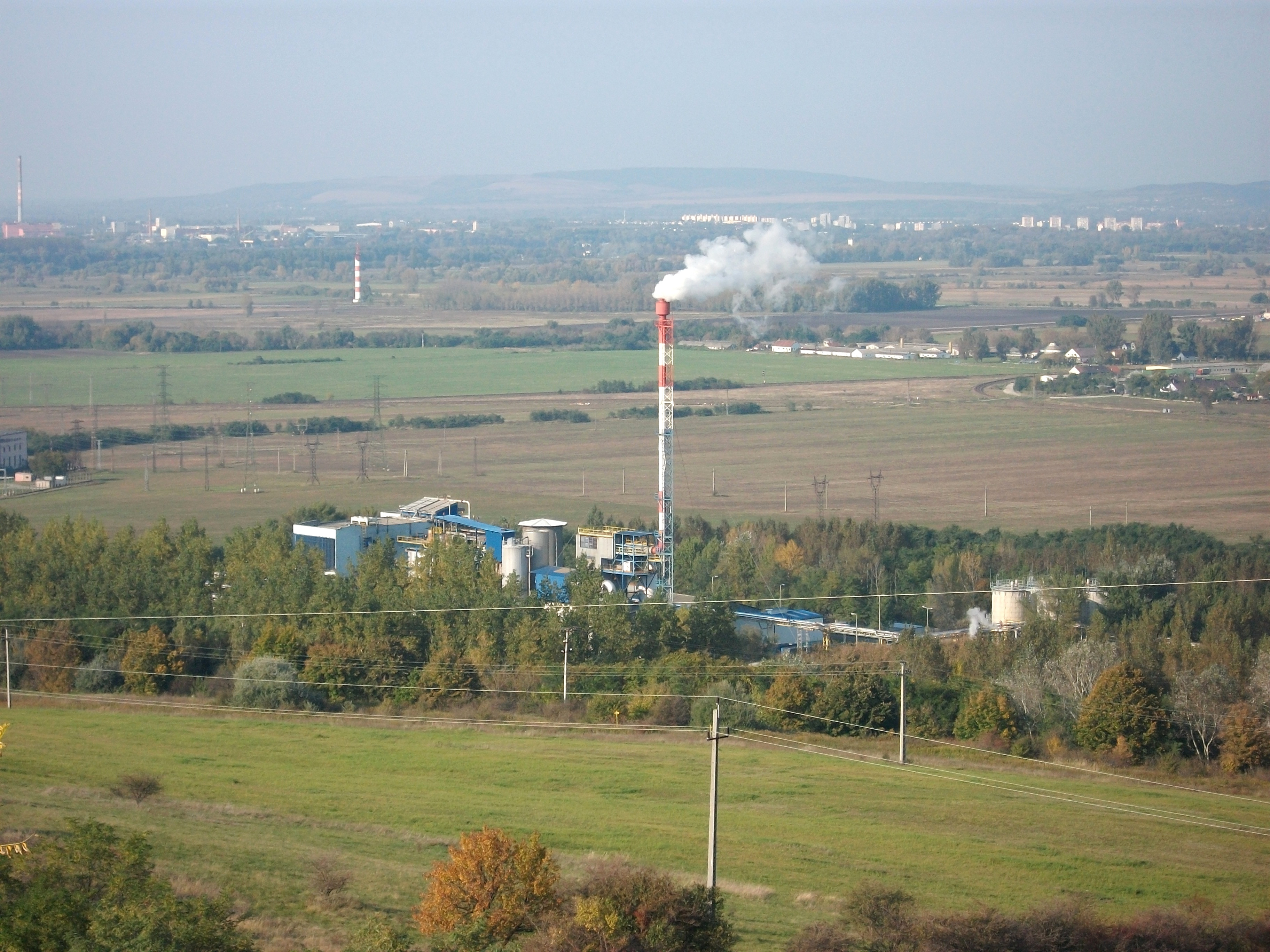 Hazardous waste incinerator specializing in the destruction of pharmaceutical and chemical waste. Refuse burner plant of Dorog, Hungary